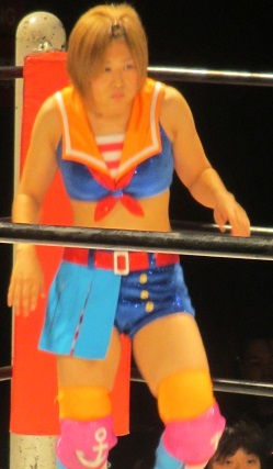 Japanese professional wrestler, Konami. June 13 2015, REINA Shin-Kiba 1st Ring.